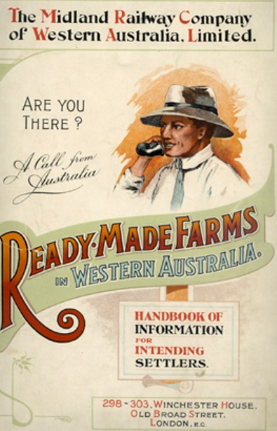 Group Settlement Scheme poster